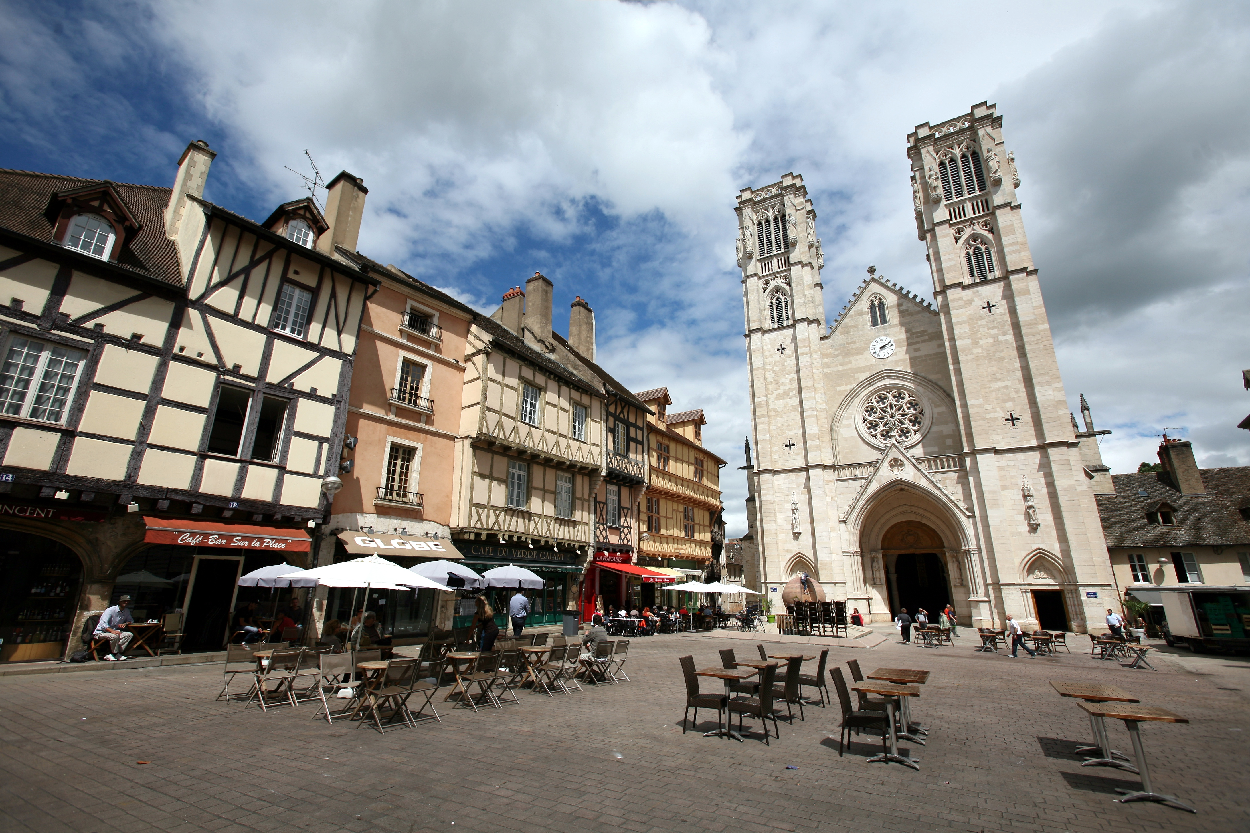 Market place and Saint-Vincent cathedral, Chalon-sur-Saône, France.